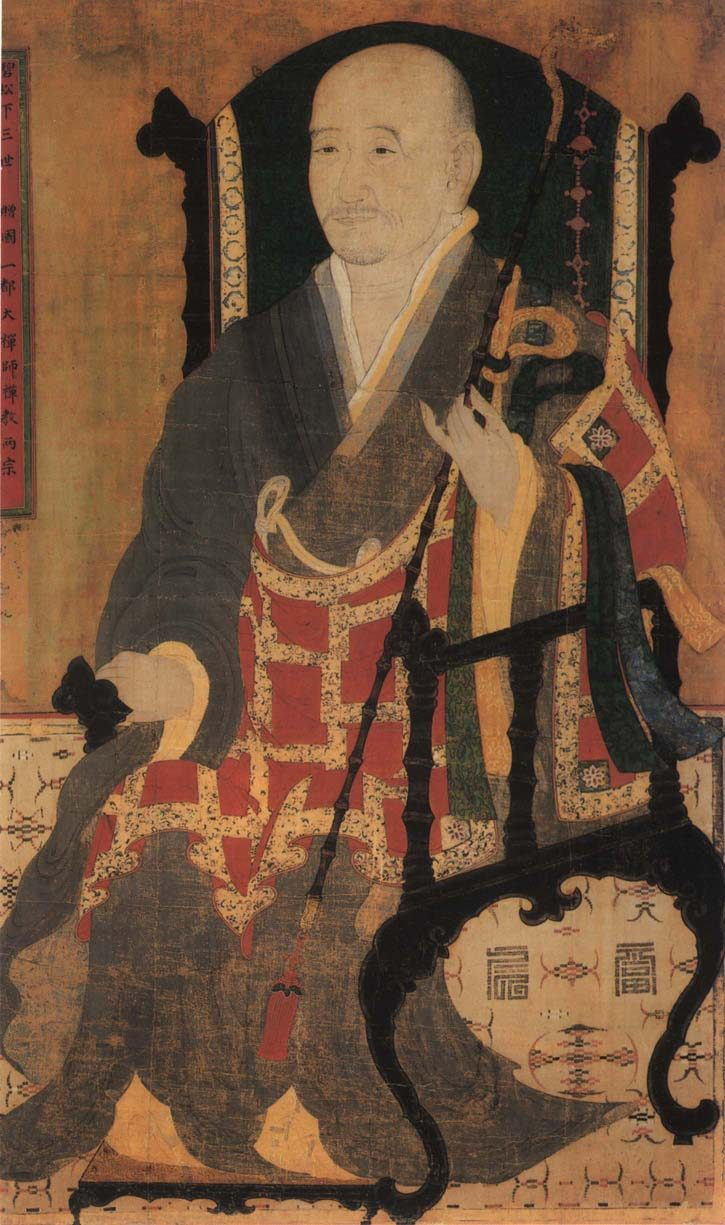 임진왜란 때의 의병활동으로 유명하신 스님이자, 한국 불교사에 뚜렷한 흔적을 남기신 분인 서산대사의 초상화 (청허당)Portrait of Seosan Daesa (Cheongheodang, 1520–1604), Chosôn dynasty (1392–1910), Hanging scroll, ink and color on silk; 152.1 x 77.8 cm, National Museum of Korea